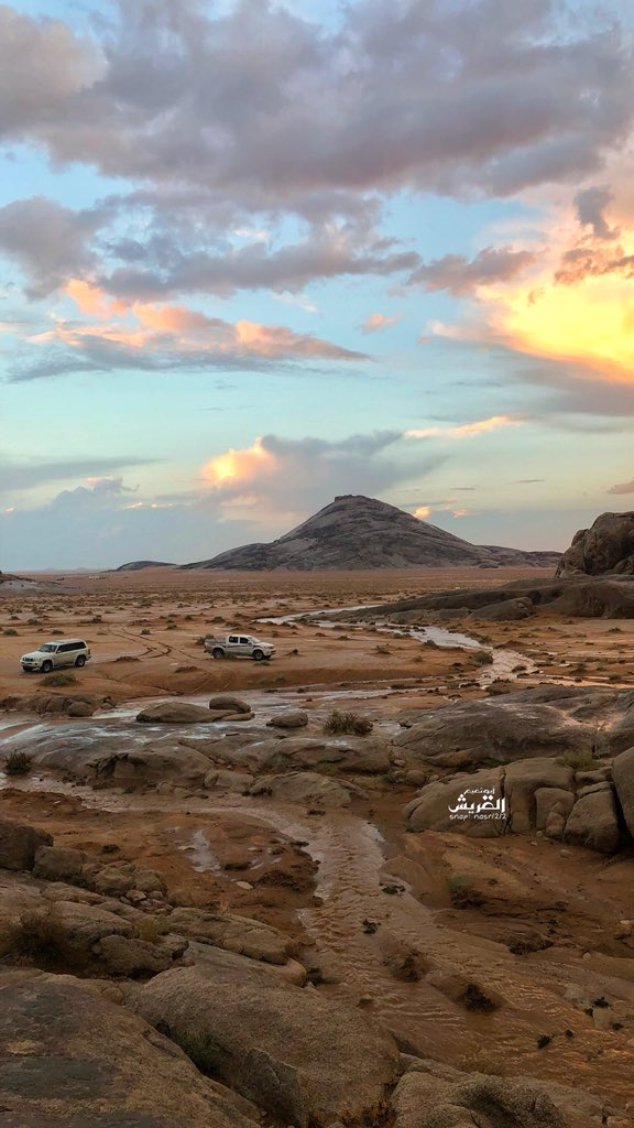 جبل خزاز